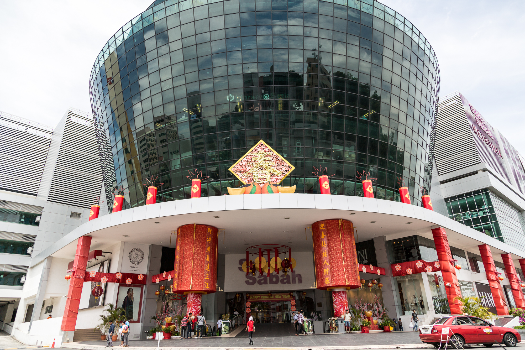 Kota Kinabalu, Sabah: Suria Sabah during Chinese New Year 2013 Celebrations